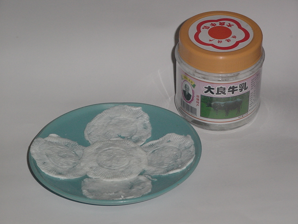 Salted Milk Protain of Daliang, Foshan